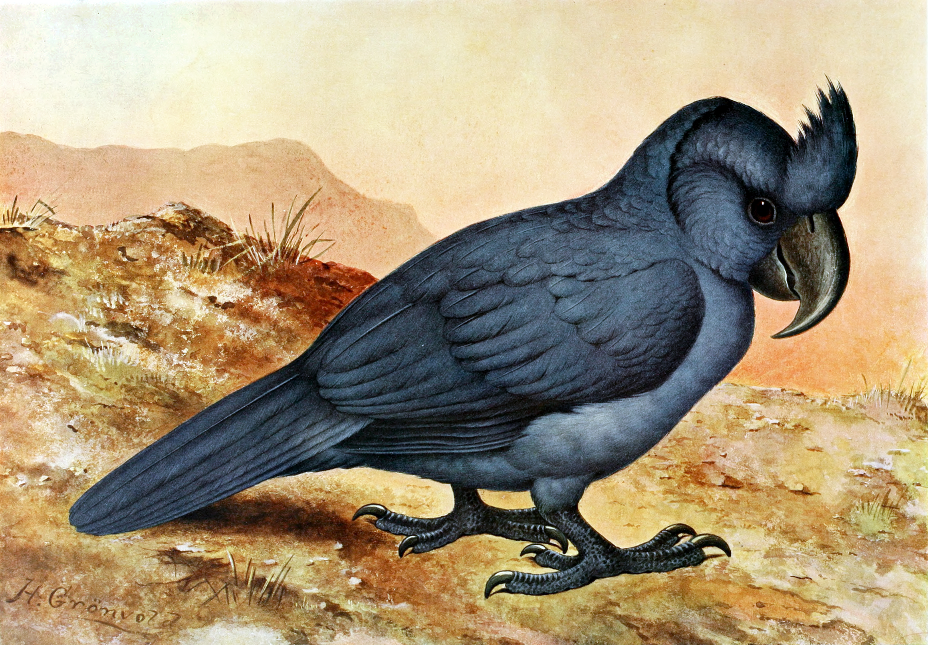 The Broad-billed Parrot (Lophopsittacus mauritianus) was a parrot endemic to the island of Mauritius that became extinct. Based on old drawing and descriptions.